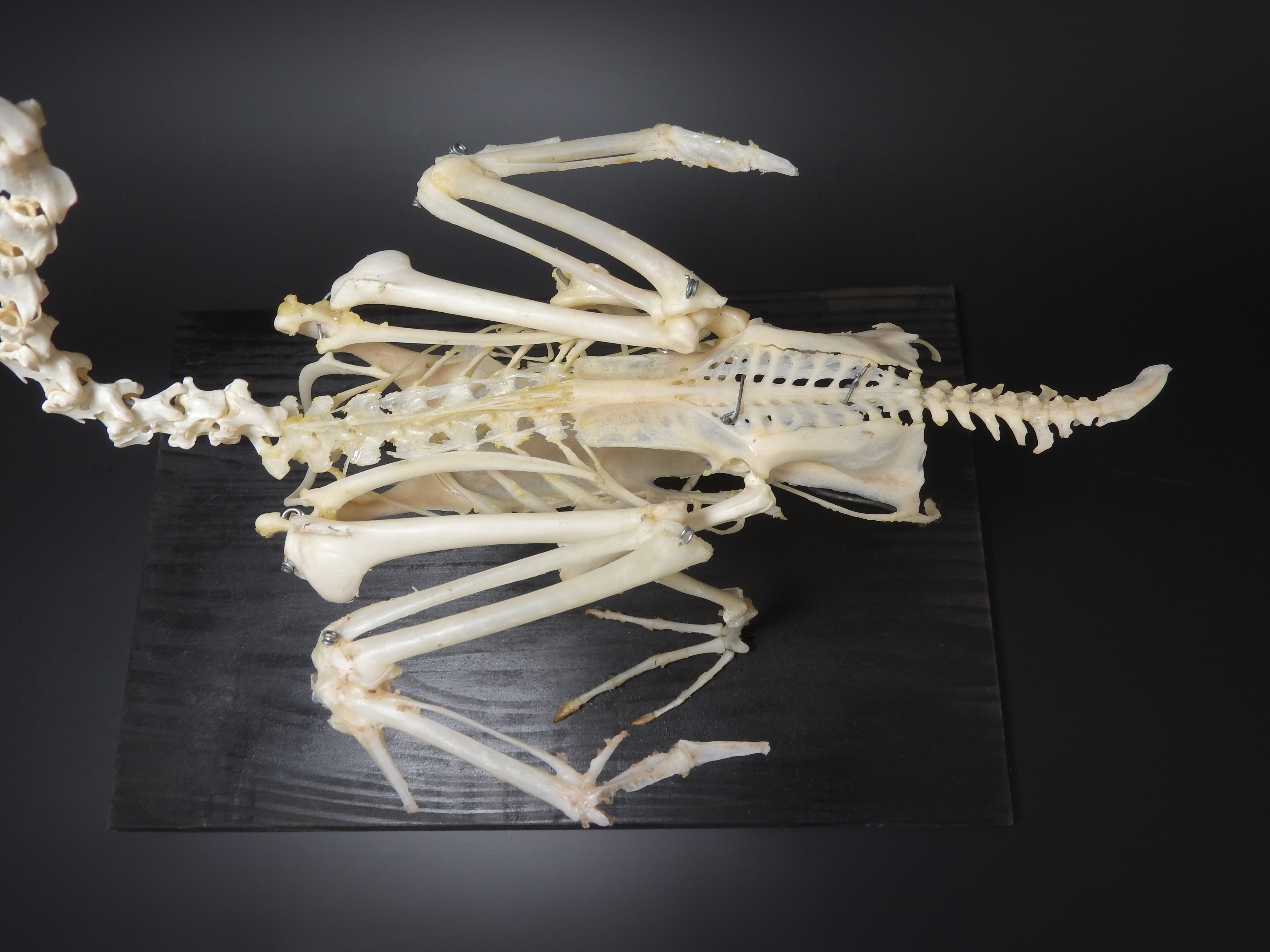 This item is a part of zoological collections of the Department of Biology and Environmental Studies of the Faculty of Education of Charles University.